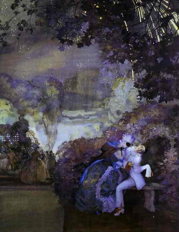 Reproduction of "Lady and Pierrot" (1910), painting by Konstantin Somov.